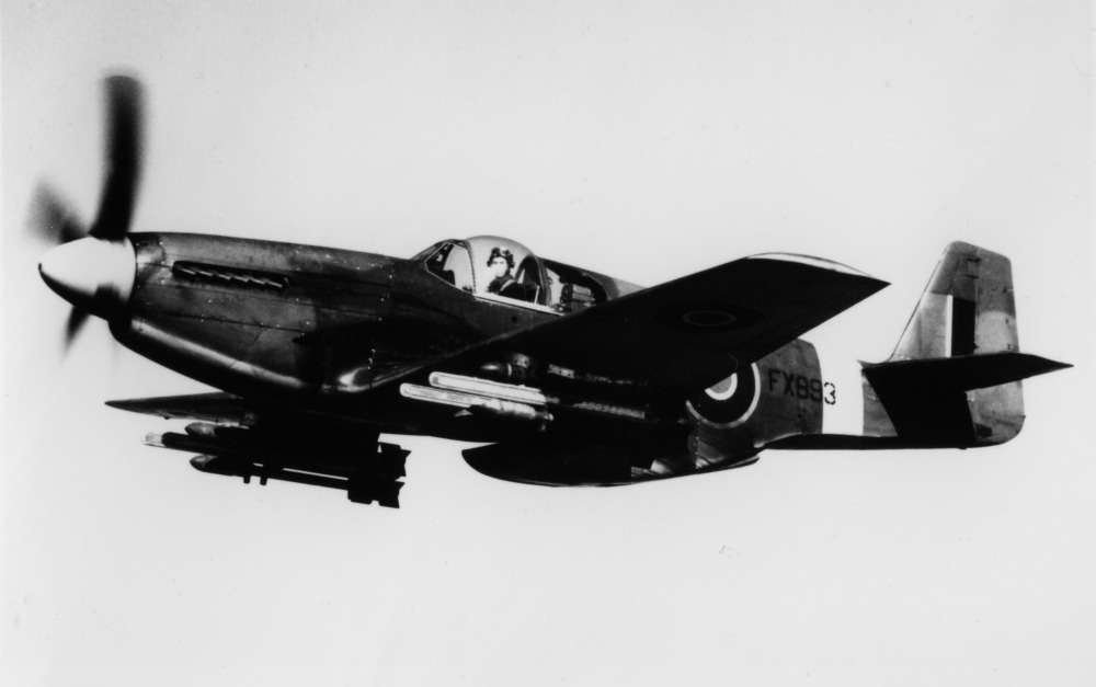 PictionID:40971211 - Title:Mustang North American Mustang Mk.III XF893 being used for weapons trials - Catalog:15_002826 - Filename:15_002826.tif - Image from the Charles Daniels Photo Collection album "US Army Aircraft."----PLEASE TAG this image with any information you know about it, so that we can permanently store this data with the original image file in our Digital Asset Management System.----SOURCE INSTITUTION: San Diego Air and Space Museum Archive